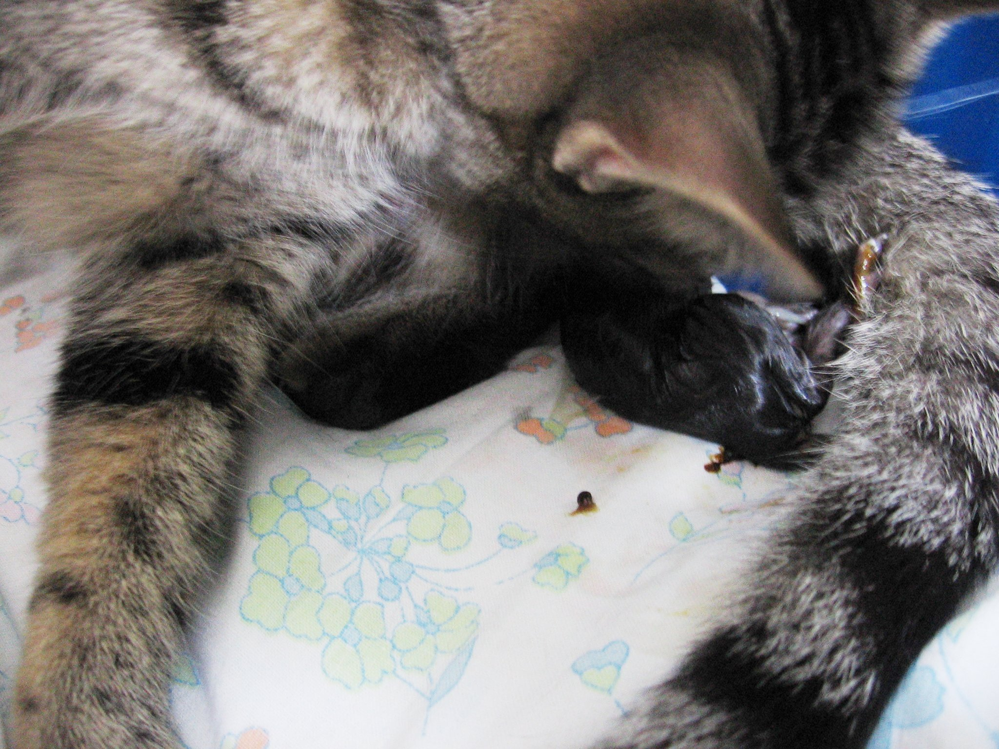 Domestic cat birth